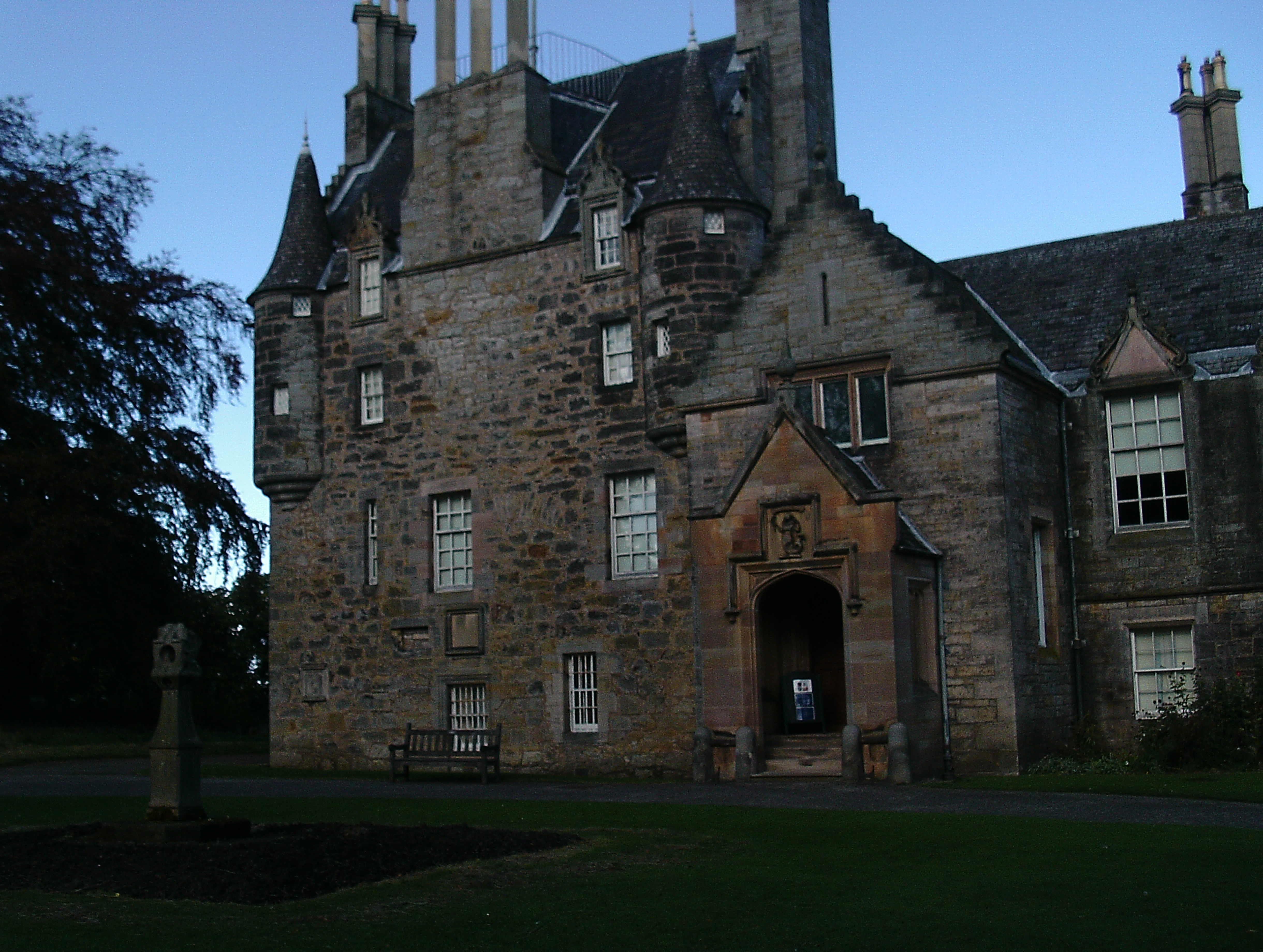 The entrance of Lauriston Castle